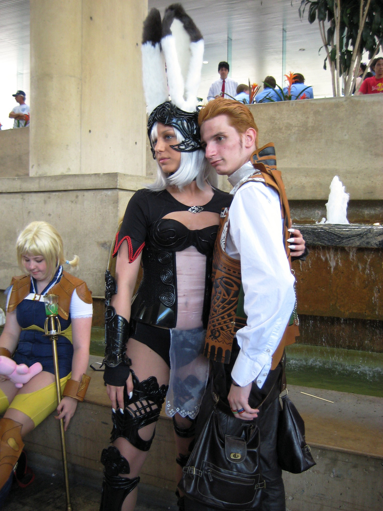 This photo was taken on July 21, 2007 using a Canon PowerShot SD1000.